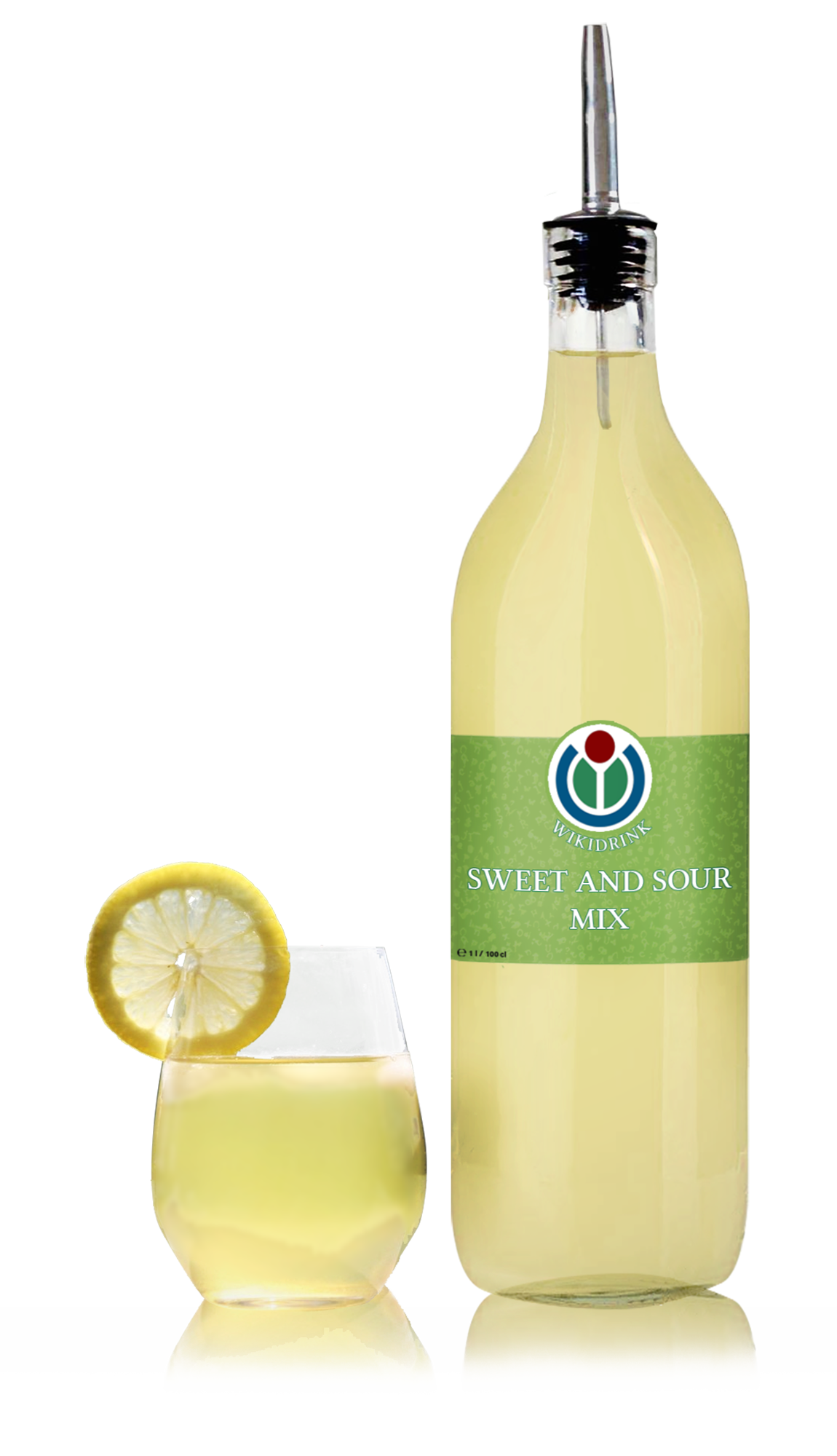 A fictional bottle and glass of sweet and sour mix